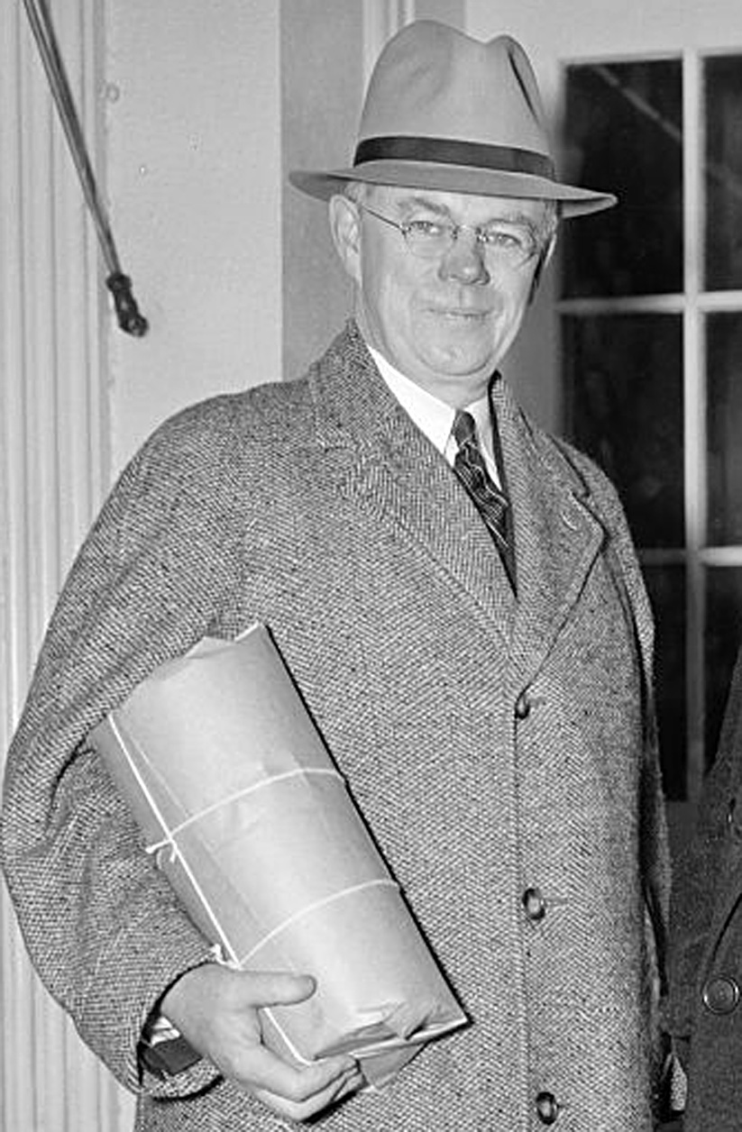 F. Ryan Duffy, US Senator from Wisconsin